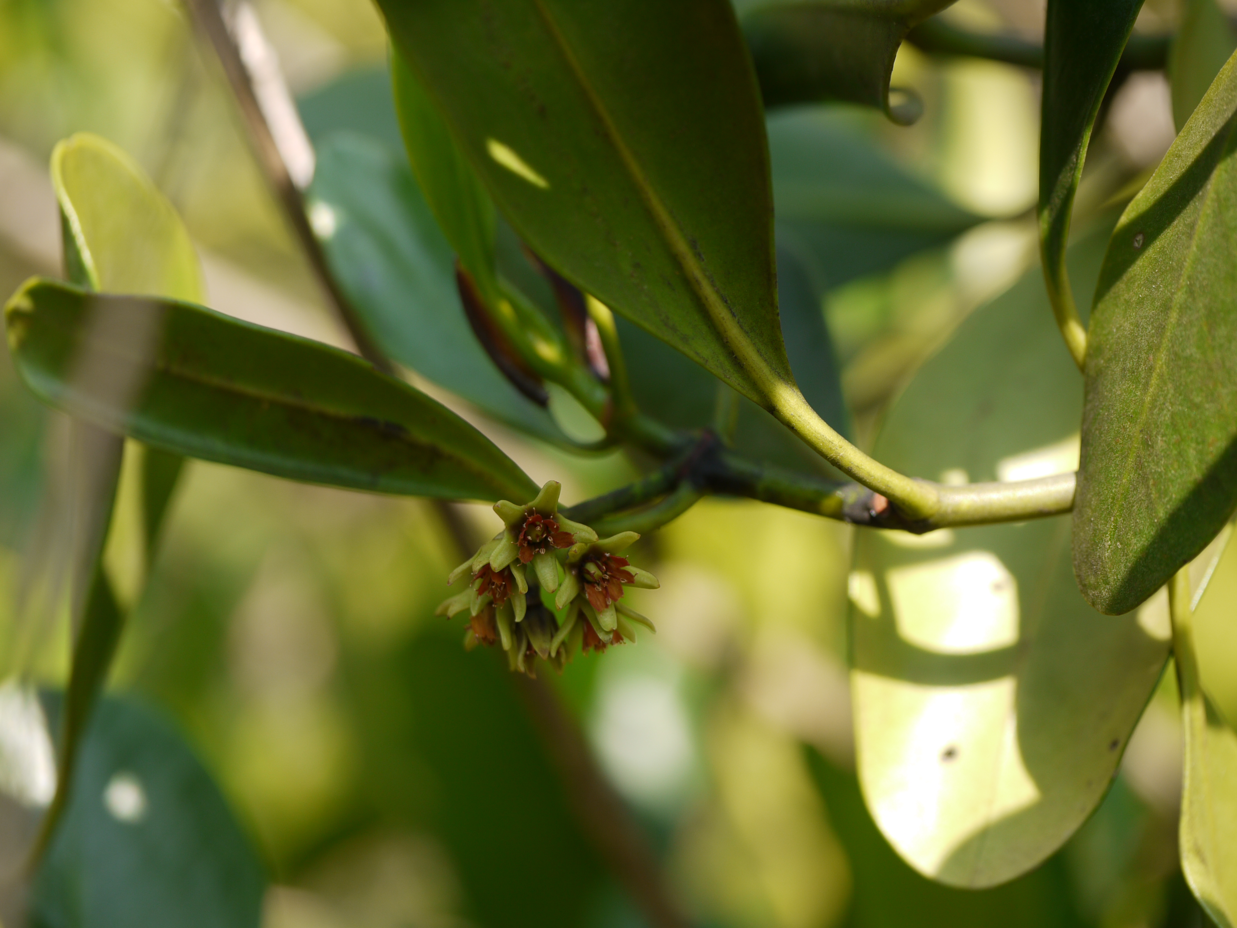 Rhizophoraceae (Burma mangrove family) » Ceriops tagal SARE-ee-ops -- from the Greek keros (wax) and ops (tablet) TAH-gal -- perhaps derived from tangal, the name of the plant in Tagalog commonly known as: compound-cymed mangrove, spurred mangrove, tagal mangrove, yellow mangrove • Bengali: mat goran • Hindi: goran • Malayalam: ആനക്കണ്ടല്‍ aanakkantal • Marathi: चौरी chauri, किरारी kirari • Oriya: gari goran, gartah • Sinhalese: punkanda, rathugas • Tamil: பன்றிக்குத்தி pandi-k-kutti • Telugu: gatharu, gedera Distribution: e Africa, Indian subcontinent, tropical Asia, n Australia, Pacific islands References: Flowers of India • Vanasampada • bioSearch • Noosa's Native Plants • DDSA